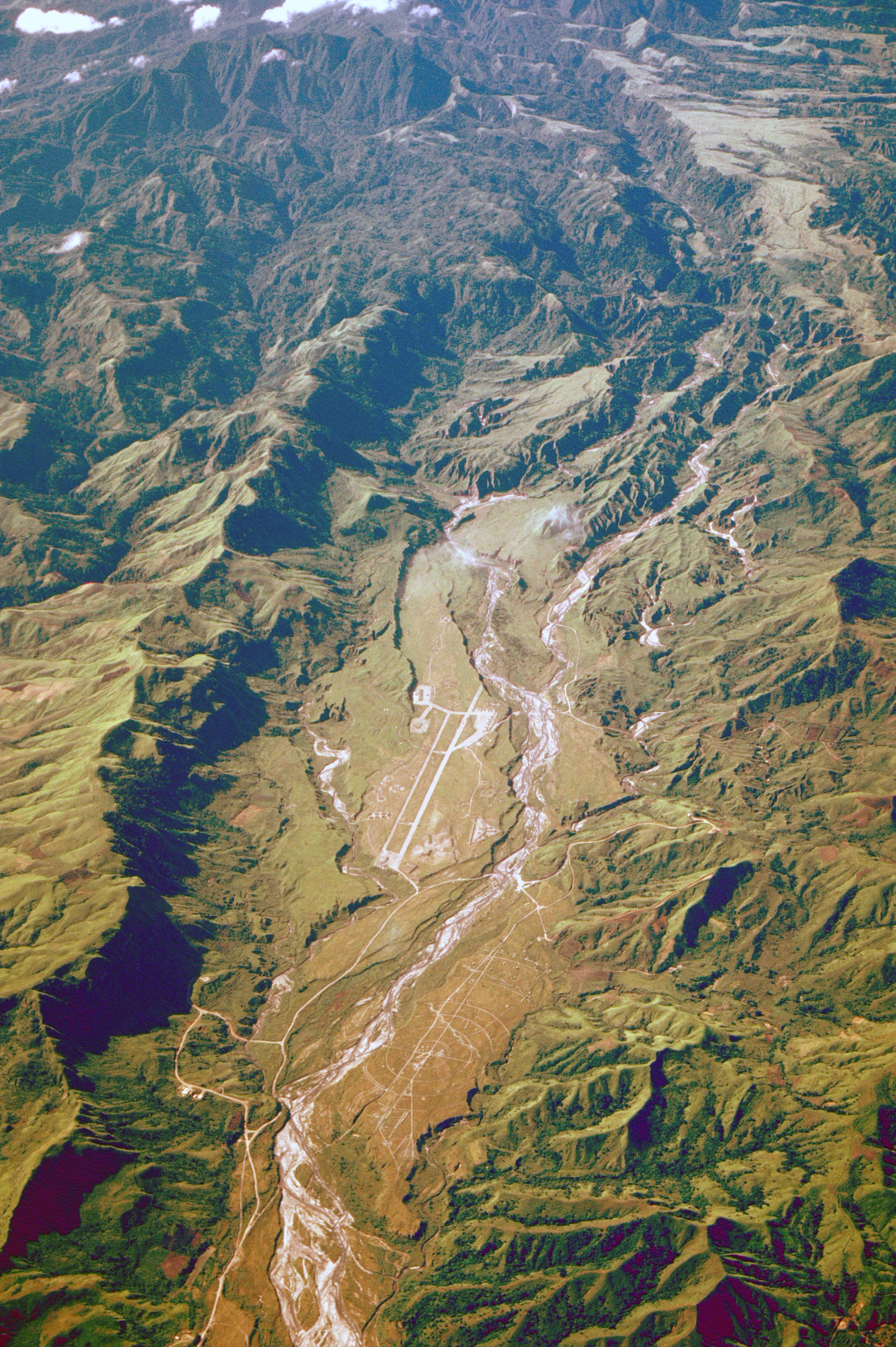 ID: DFST8904915 Service Depicted: Air Force